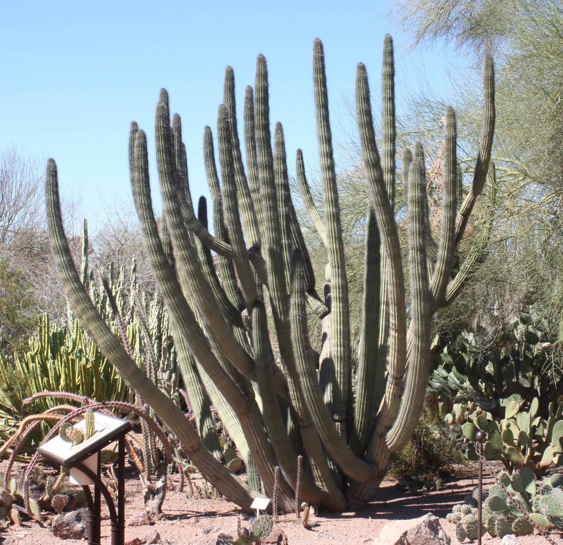 Organ Pipe Cactus (Stenocereus thurberi); Cactus family (Cactaceae). Photographed at the Desert Botanical Garden, Phoenix, AZ.